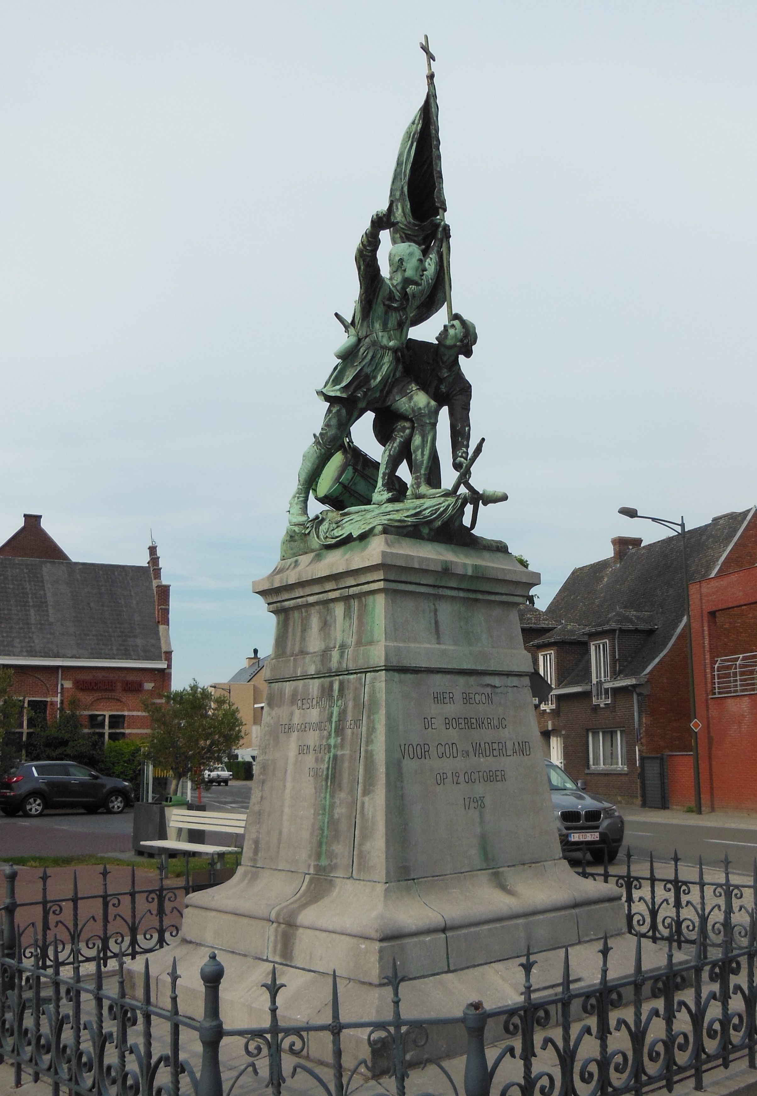 A bronze statue on a socle, representing insurgents (brigands) of the so called peasants’ war , an upraisel against the French occupation and annexation of the Southern Netherlands.